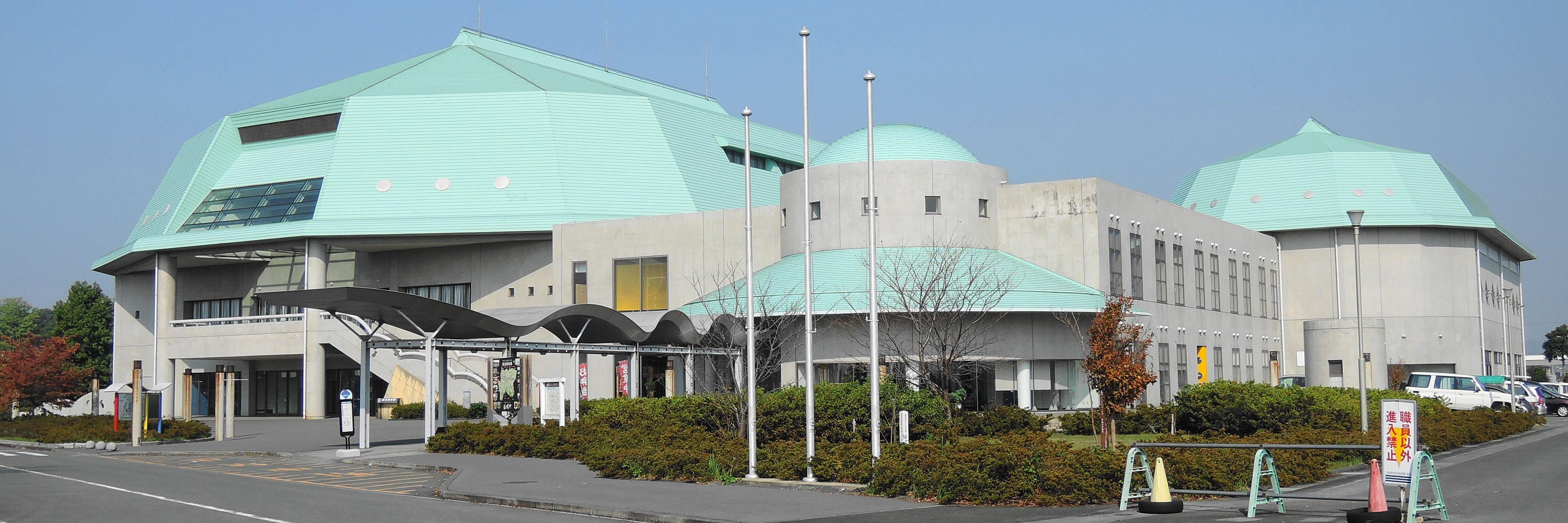 Nishio town Arena,Kumamoto prefecture,Japan